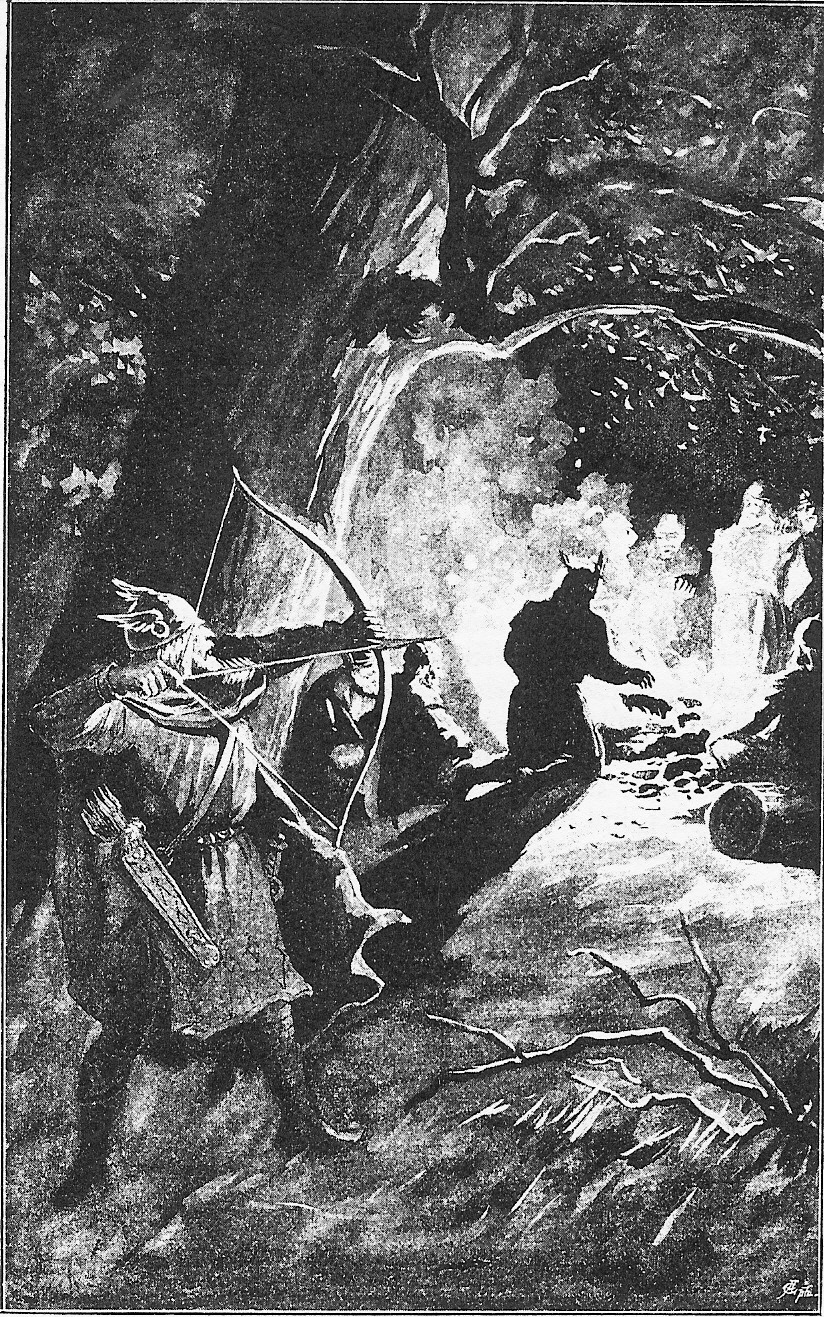 Artwork by Jenny Nyström (1854 - 1946), 1895.